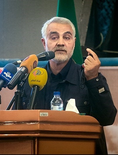 Major General Qassem Soleimani at the International Day of Mosque